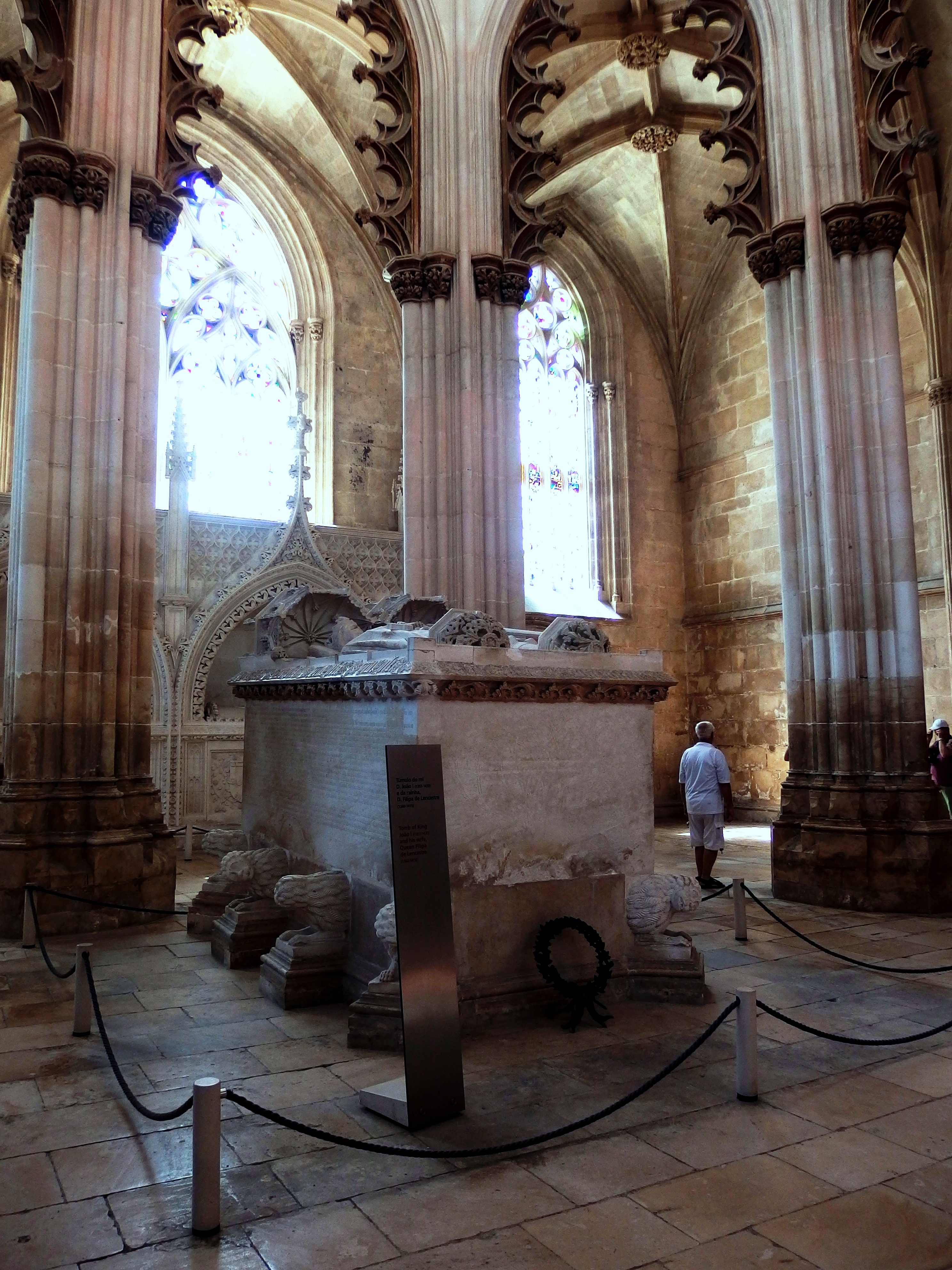 Batalha, Portugal. Monastery, tombs of King John I of Portugal and Philippa of Lancaster.